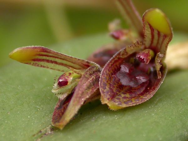 Another color form, leaves more oval